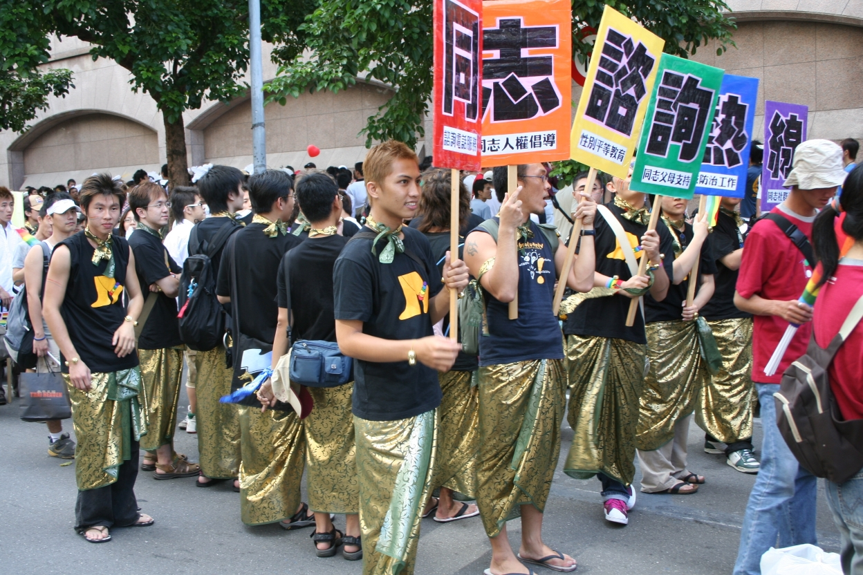 Taiwan Tongzhi Hotline Association The association on Taiwan Pride 2005, dressed with shiny skirts 2005-10-01 14:07